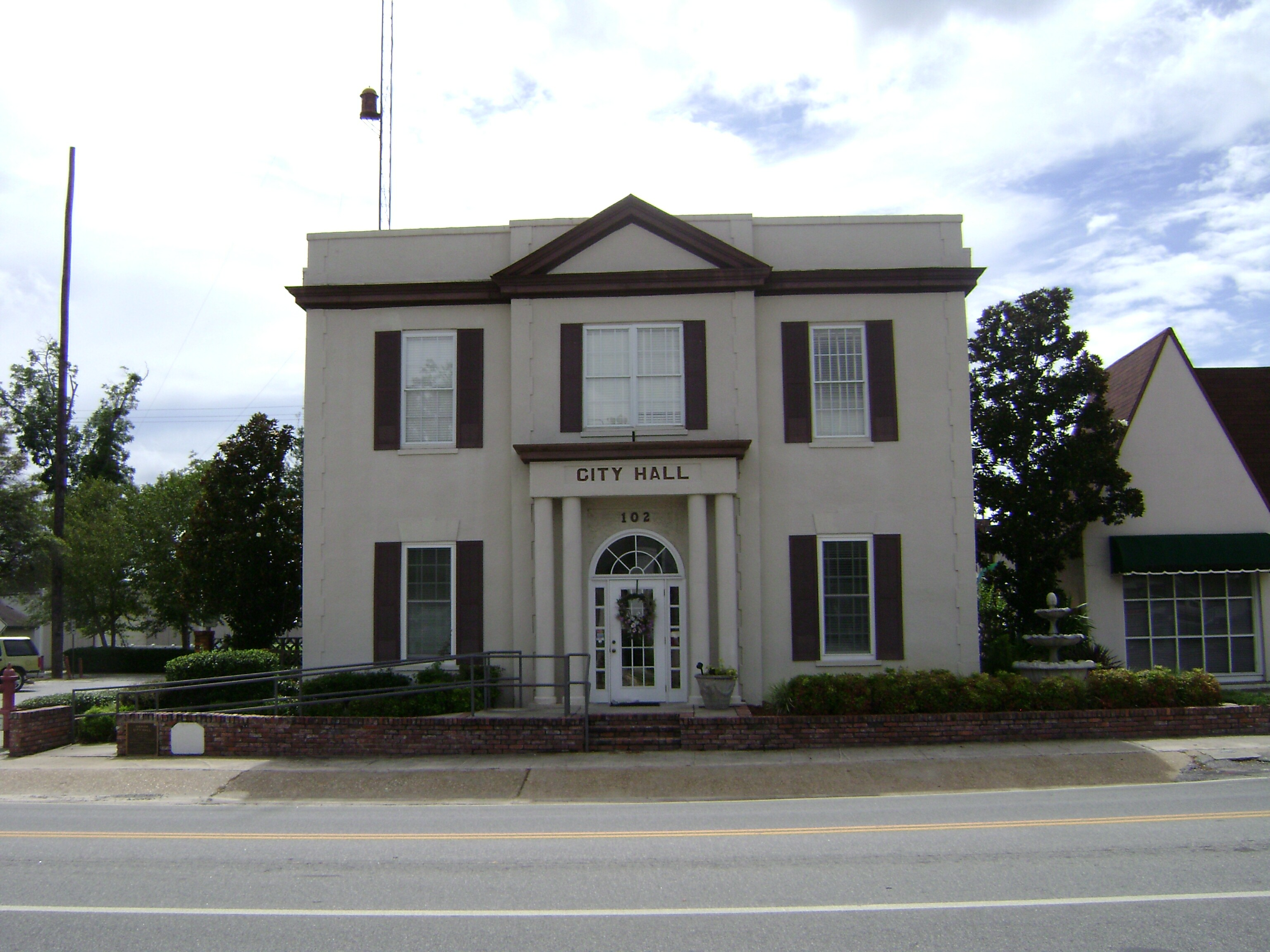 Hahira City Hall in Hahira, Lowndes County, Georgia